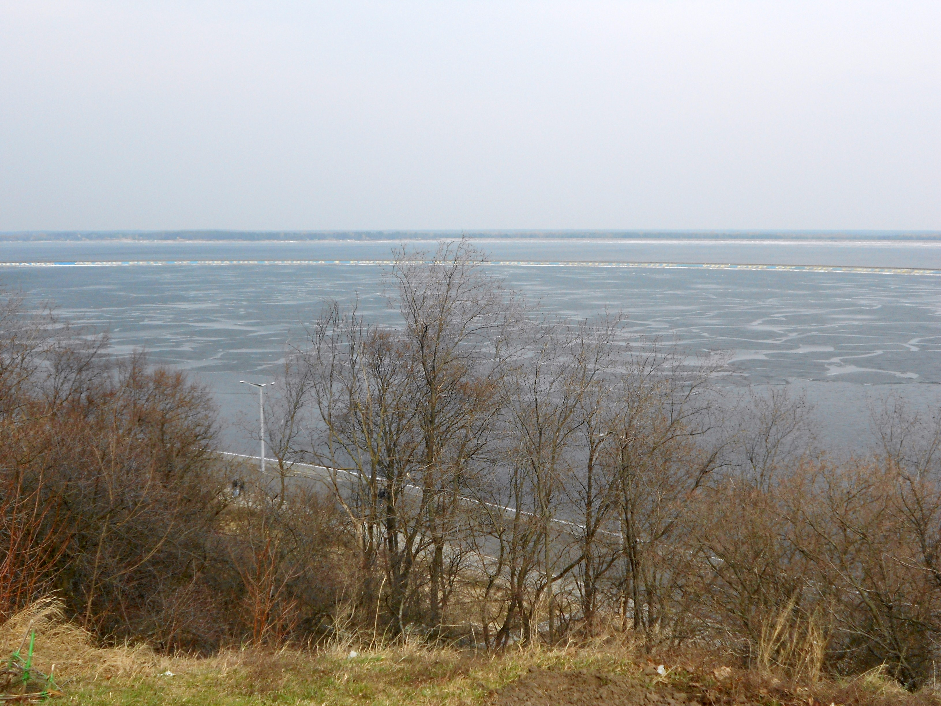 Kiev Reservoir in march 2012